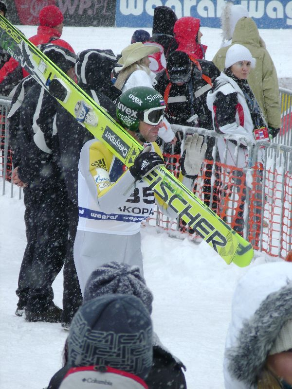 ski jumper Dimitry Vassiliev from Russia during the World Cup in Zakopane on 27-1-2008